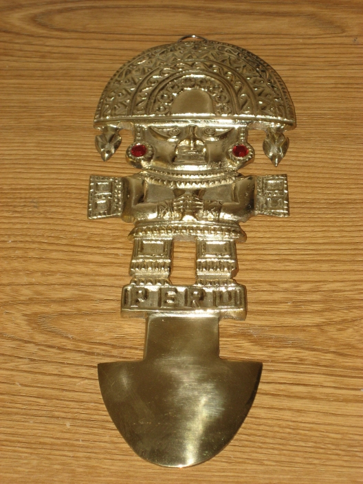 Picture of a Peruvian Tumi purchased in 2007. Picture taken and posted by the owner of the Tumi, Michael Diaz. The Tumi will be donated to the Virginia Tech multicultural center.